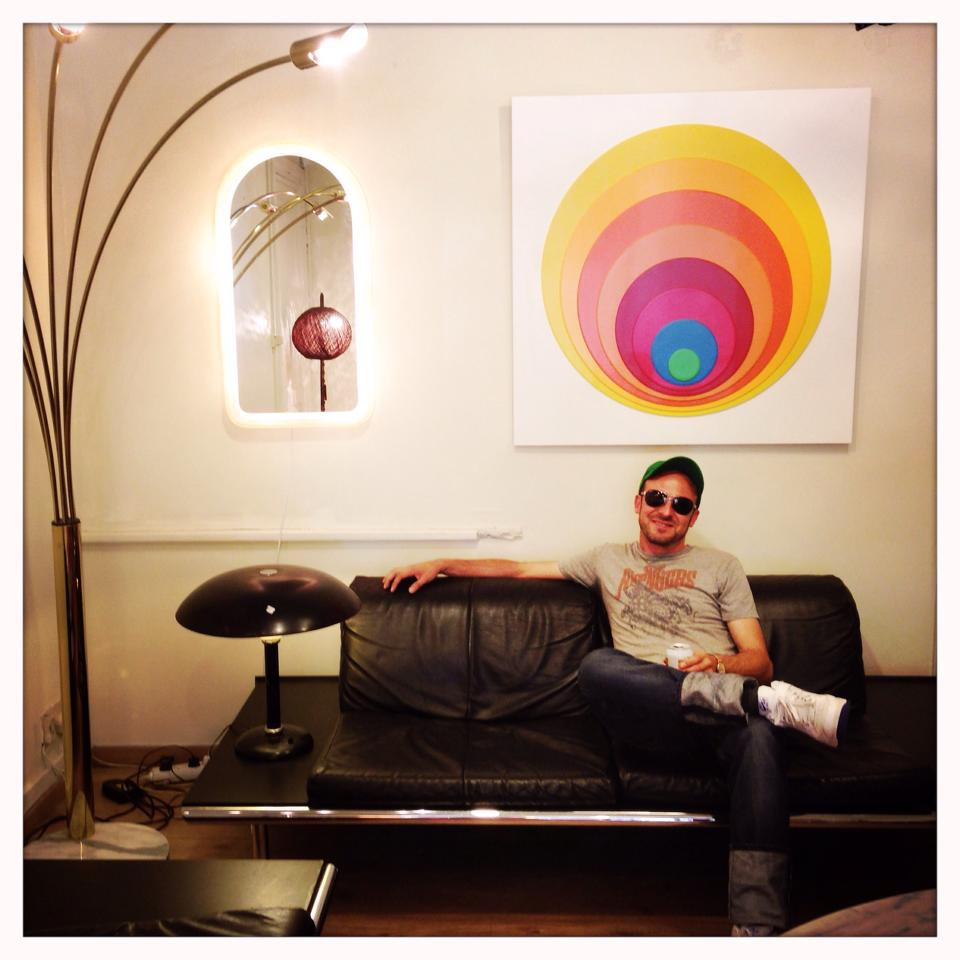 EnginOeztuerk